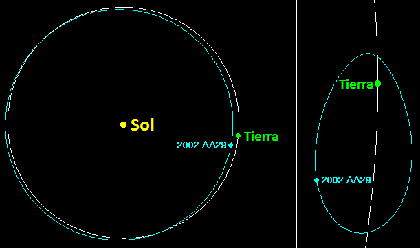 Quasi-satellite orbit of 2002 AA29 in year 2589 viewed vertical to the ecliptic. The left part shows the orbits of 2002 AA29 and Earth from the Sun's frame of reference. The right part shows a cut-out of the same orbit of 2002 AA29, this time viewed from the Earth co-rotating frame.